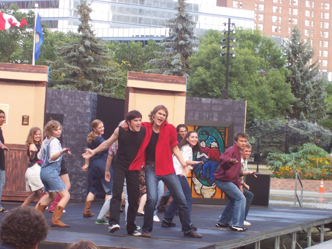 Summerstock Conservatory performance of Footloose. Opening night July 31, 2007